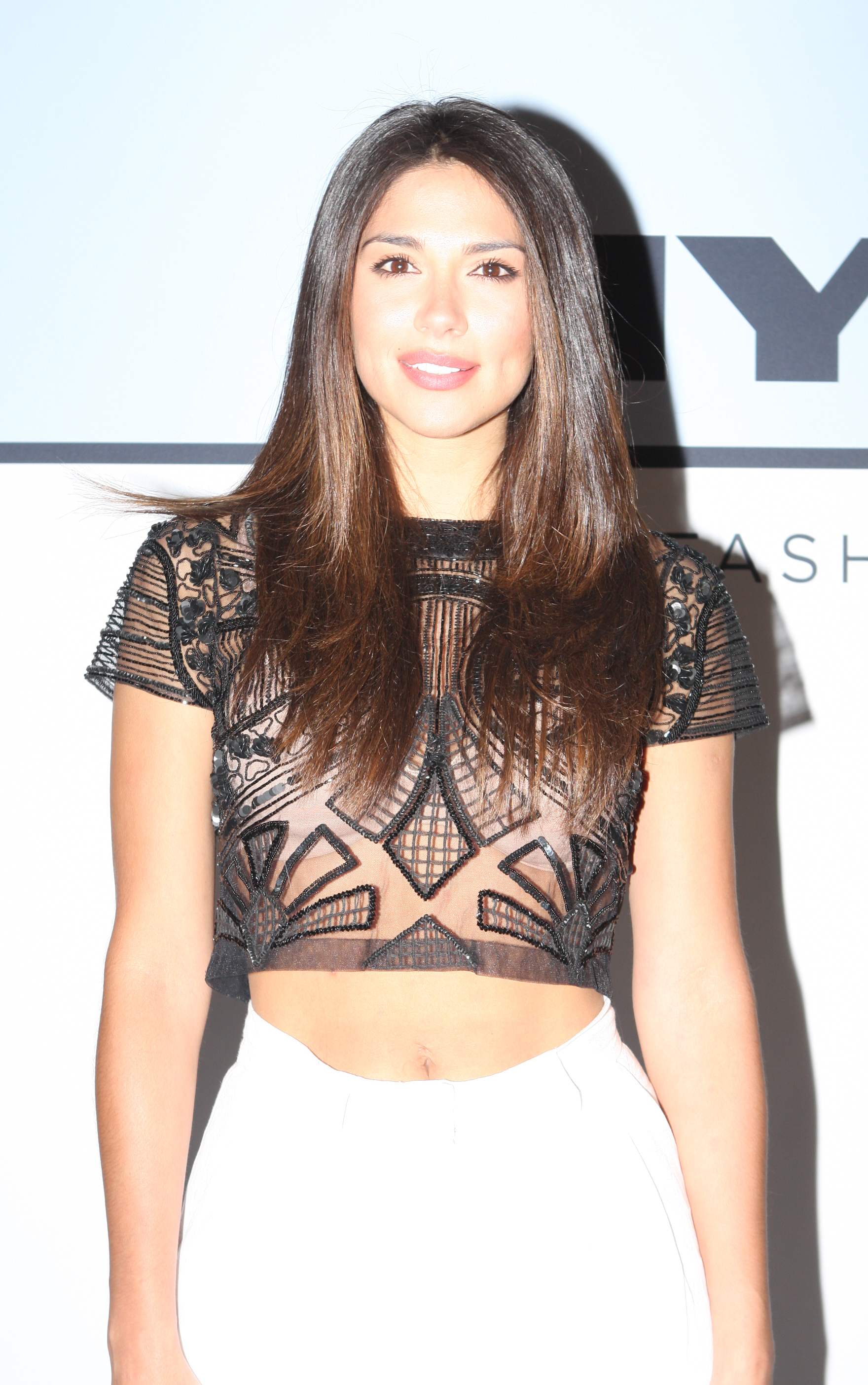 Pia Miller at Myer Fashion Spring Launch 2015 Red Carpet